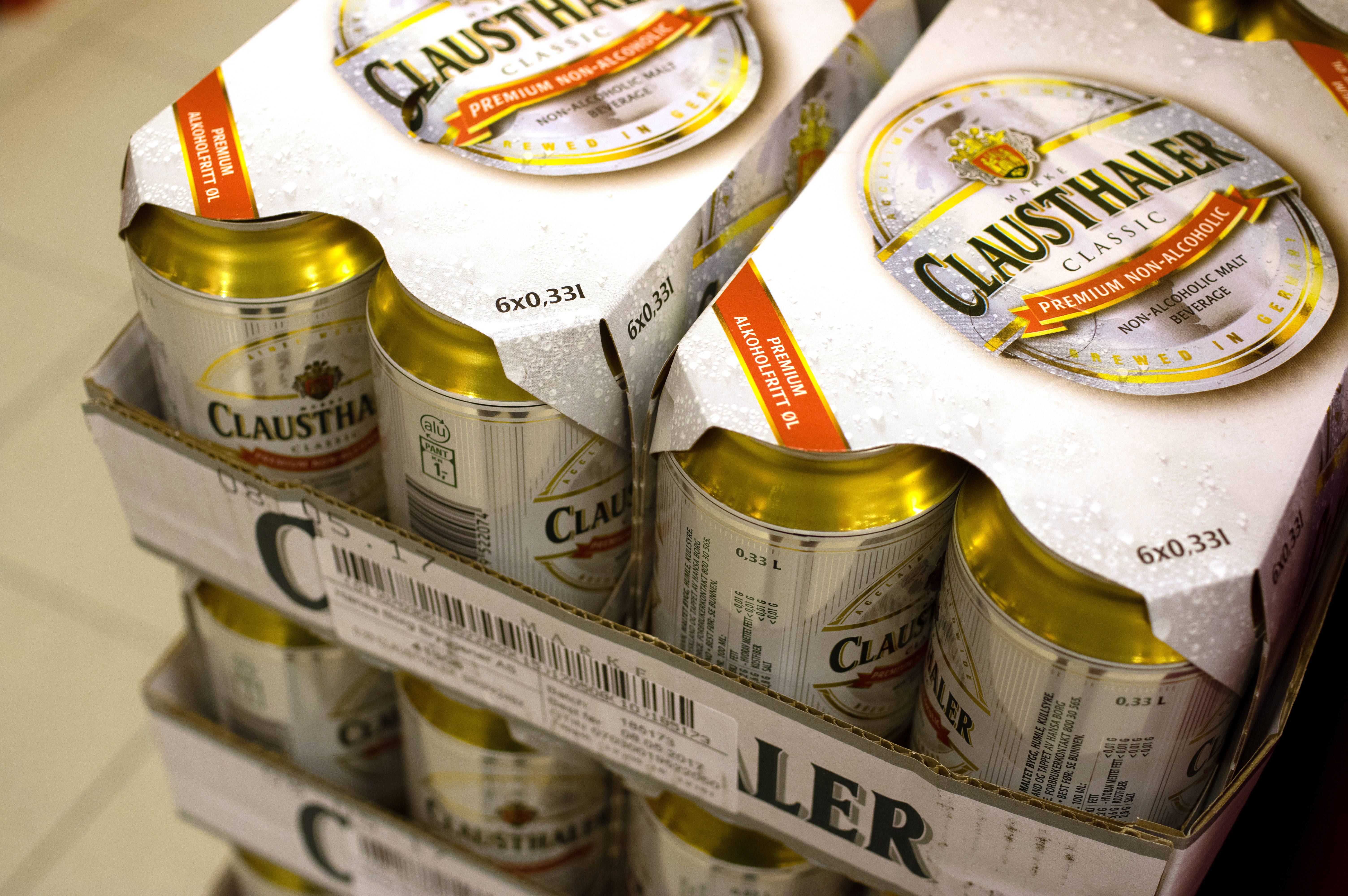 Clausthaler, a nonalcoholic Norwegian beer.